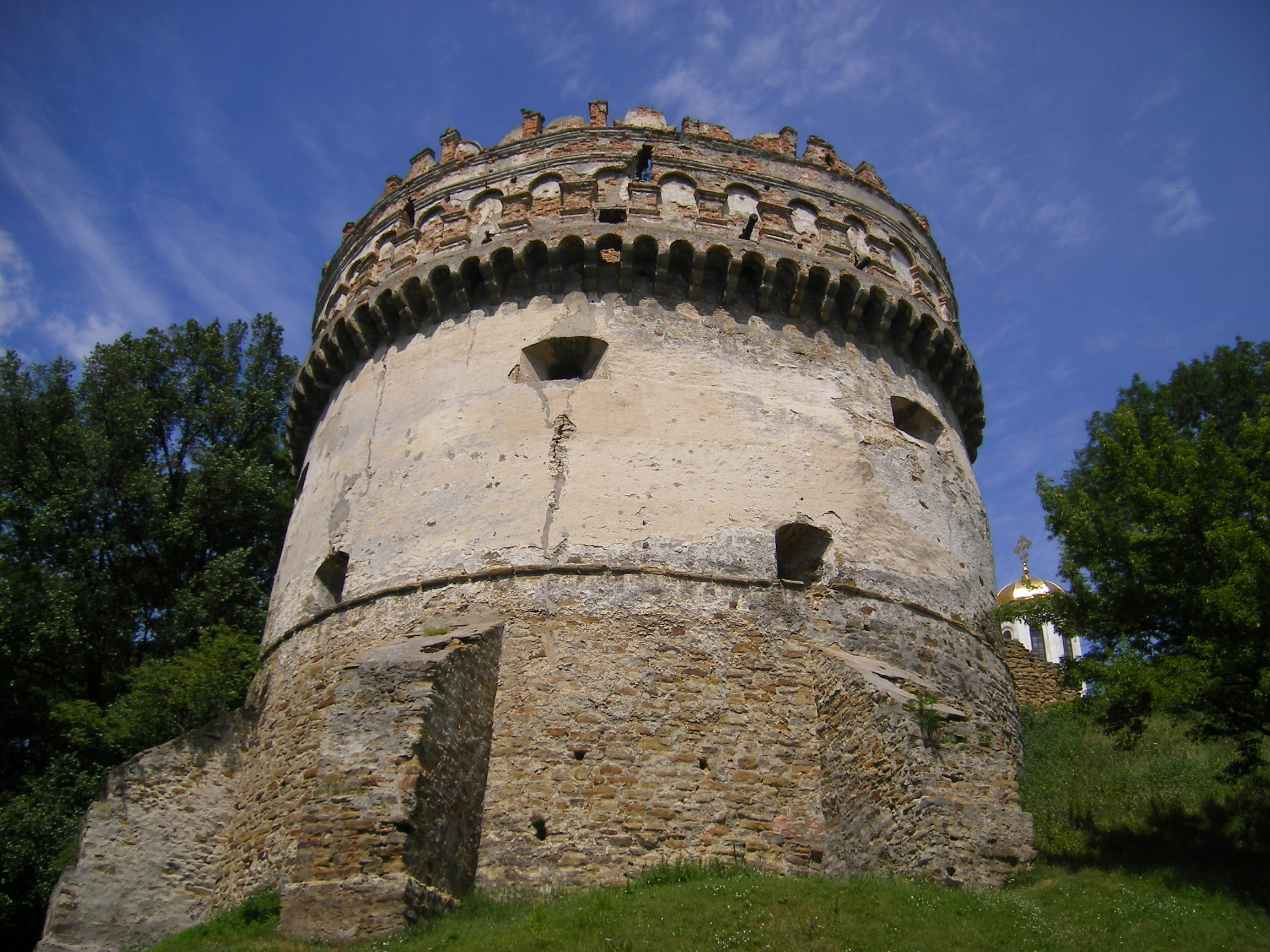 Ostroh, Castle